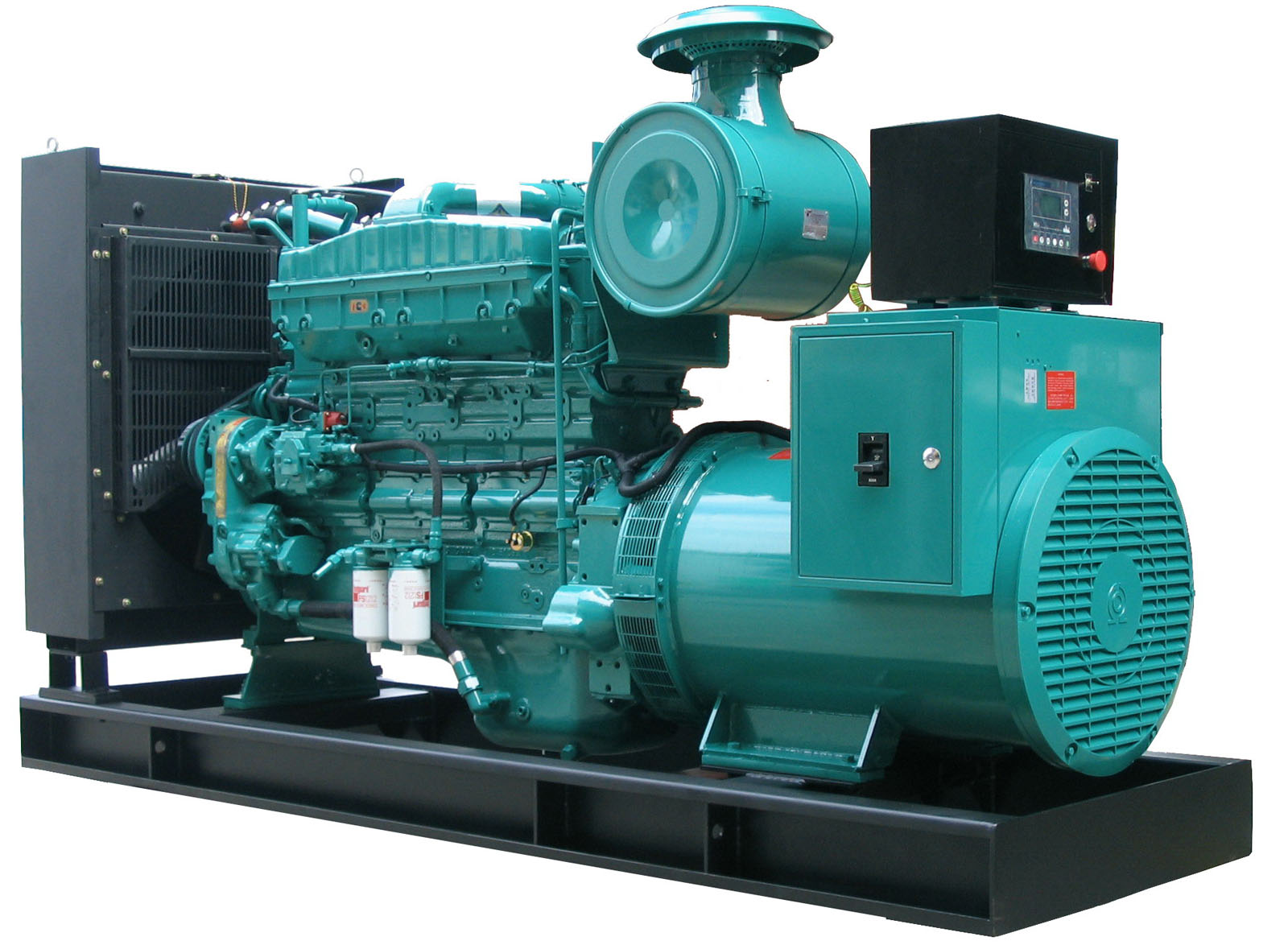 وحدة التوليد الكهربية وموضح بها خزان الوقود وقاعدة التثبيت والرادياتير